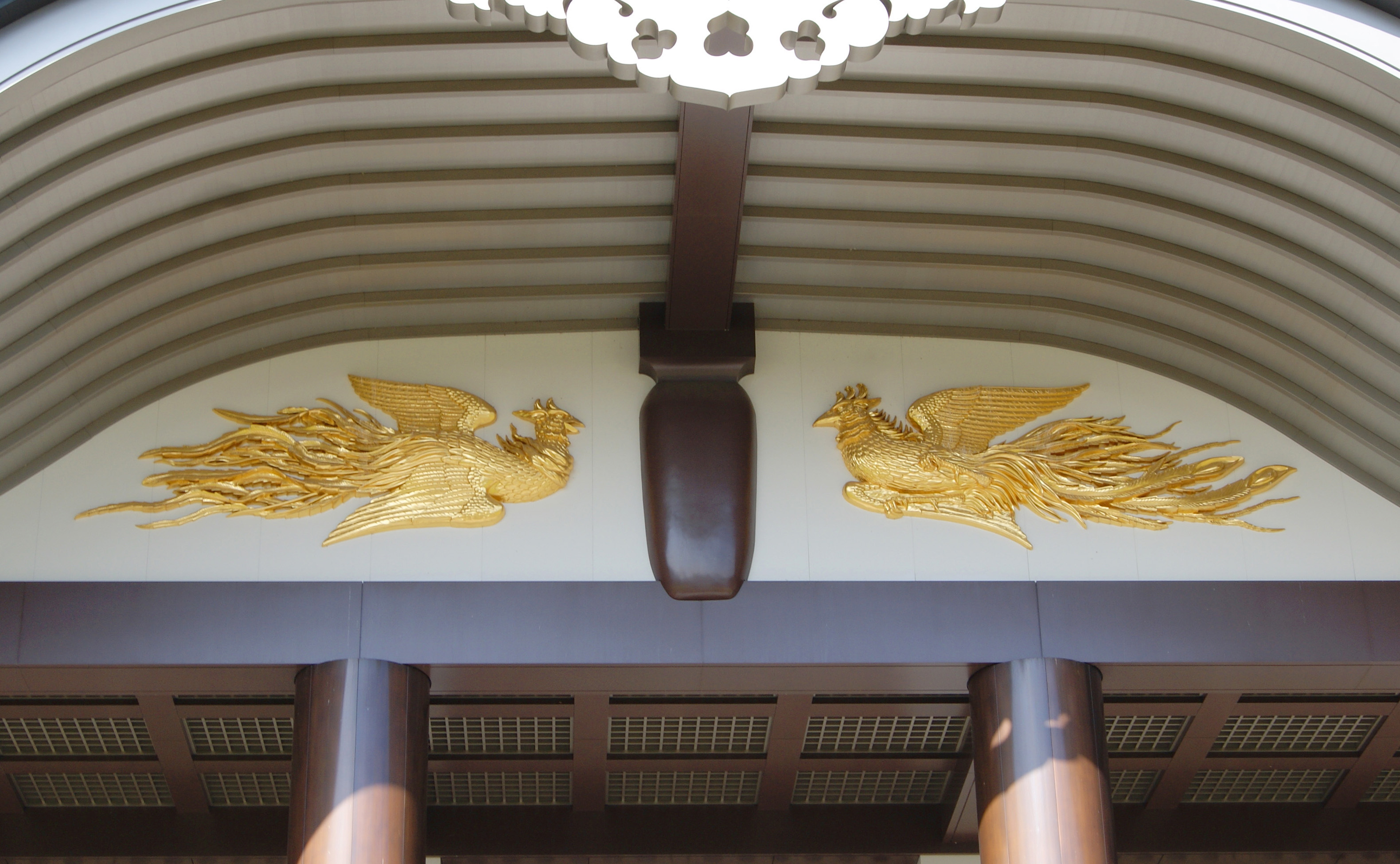 Fenghuang of Hōan-dō of Taiseki-ji.